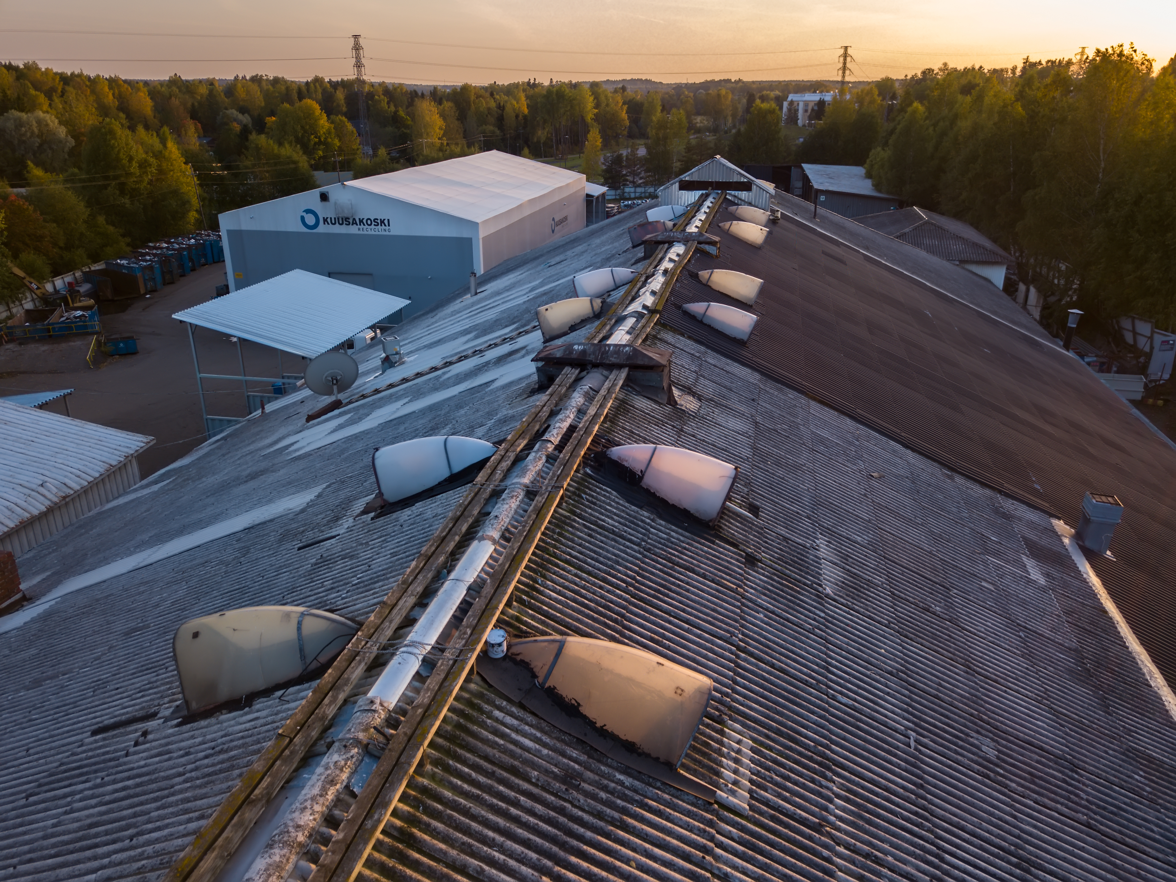 Photo of the canopies of old Valmet Vihuri airplanes at the Kuusakoski metal-recycling plant in Espoo.